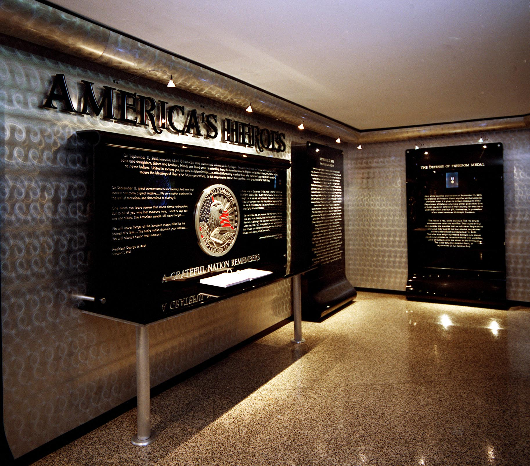 The Pentagon’s America's Heroes Memorial is dedicated to the 184 people killed in the Sept. 11, 2001, terrorist attack on the Pentagon. The names of the victims are engraved on black acrylic panels inside the horseshoe-shaped memorial. A book containing photographs and biographies of each of the victims is at the center of the memorial under the "United in Memory" seal. DoD photo by Helene C. Stikkel. (Released)